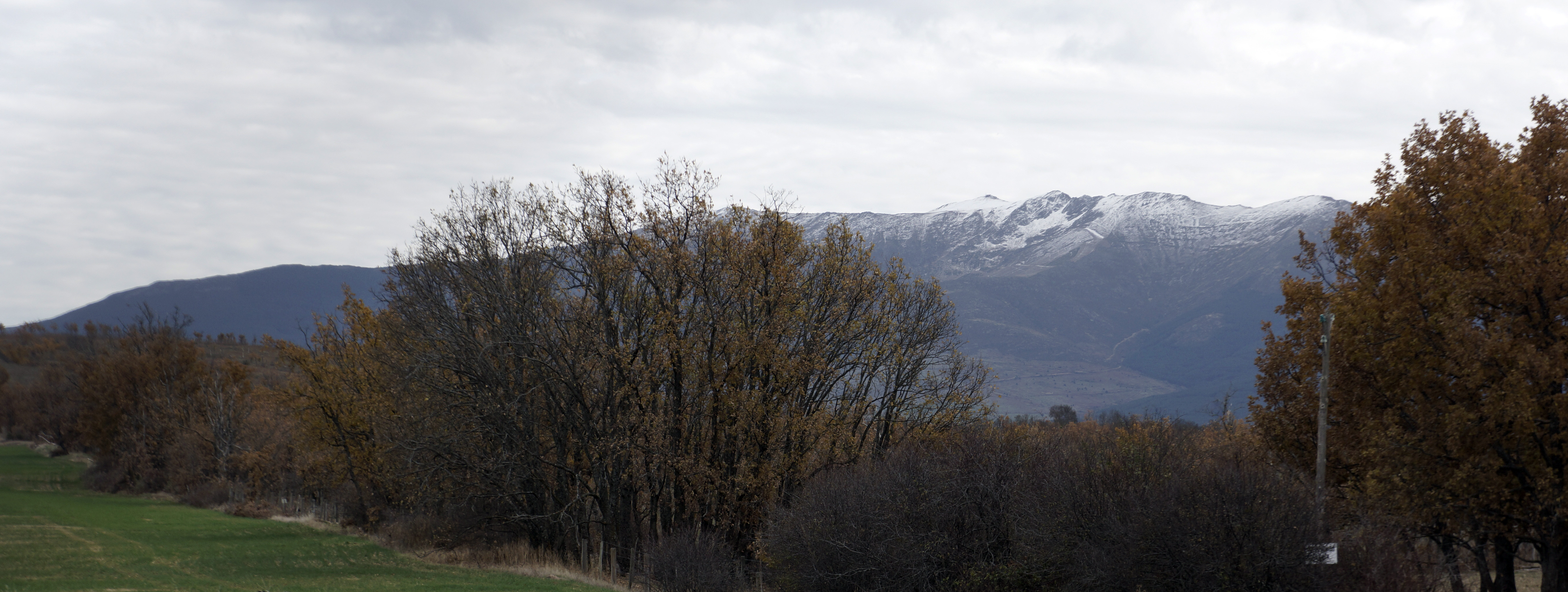 Sierra de Ayllón from the province of Segovia. Pico del Lobo (2.272 m)